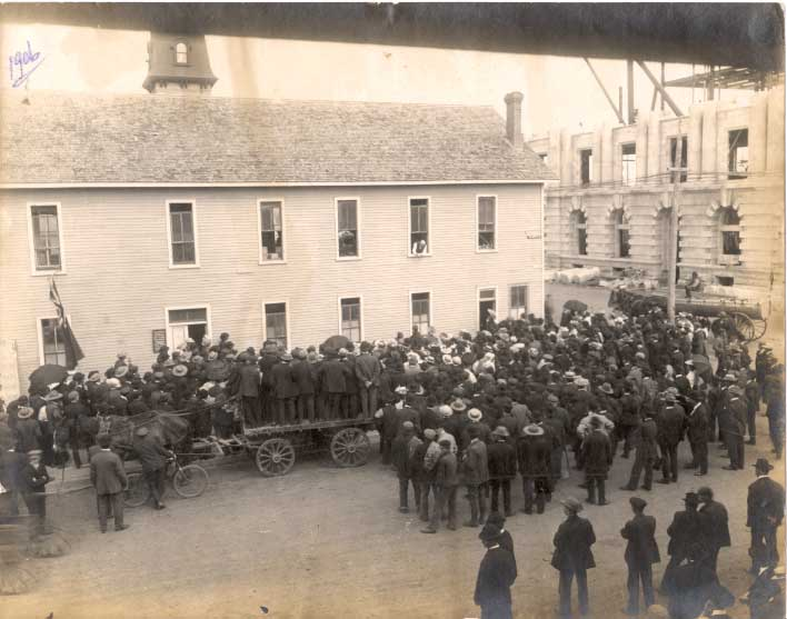 Auction of unclaimed express goods at Regina City Hall on the corner of 11 th Avenue and Scarth Street . Post office is under construction in the right of the frame.